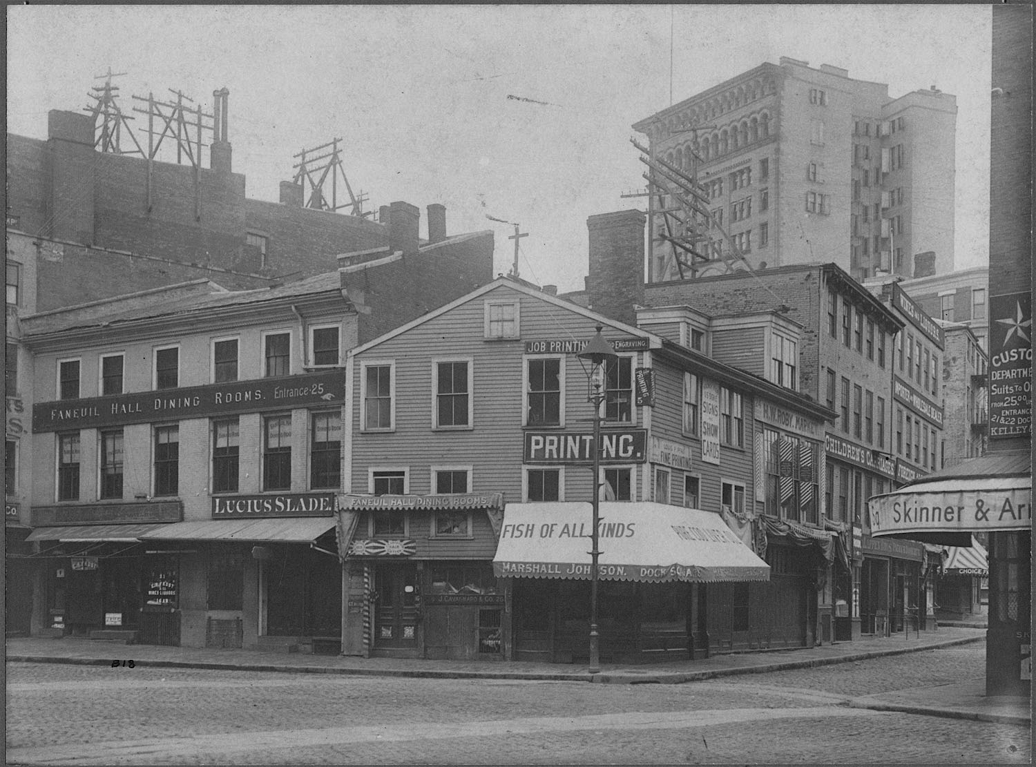 Accession No.: 07_10_000076 Cab. No.: Cab 23.58.1 Title: The Sun Tavern, Dock Square, Boston Date: ca.1898-1900 (approximate) Genre: Photographs Description: Built in 1680 in Dock Square. Signage indicates Faneuil Hall Dining Rooms operating out of the building. BPL Department: Print Department |Source= The Sun Tavern, Dock Square |Date=2008-05-21 11:14 |Author=BPL